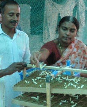 silkworms are ready to spin silk cocoon in rotary montage